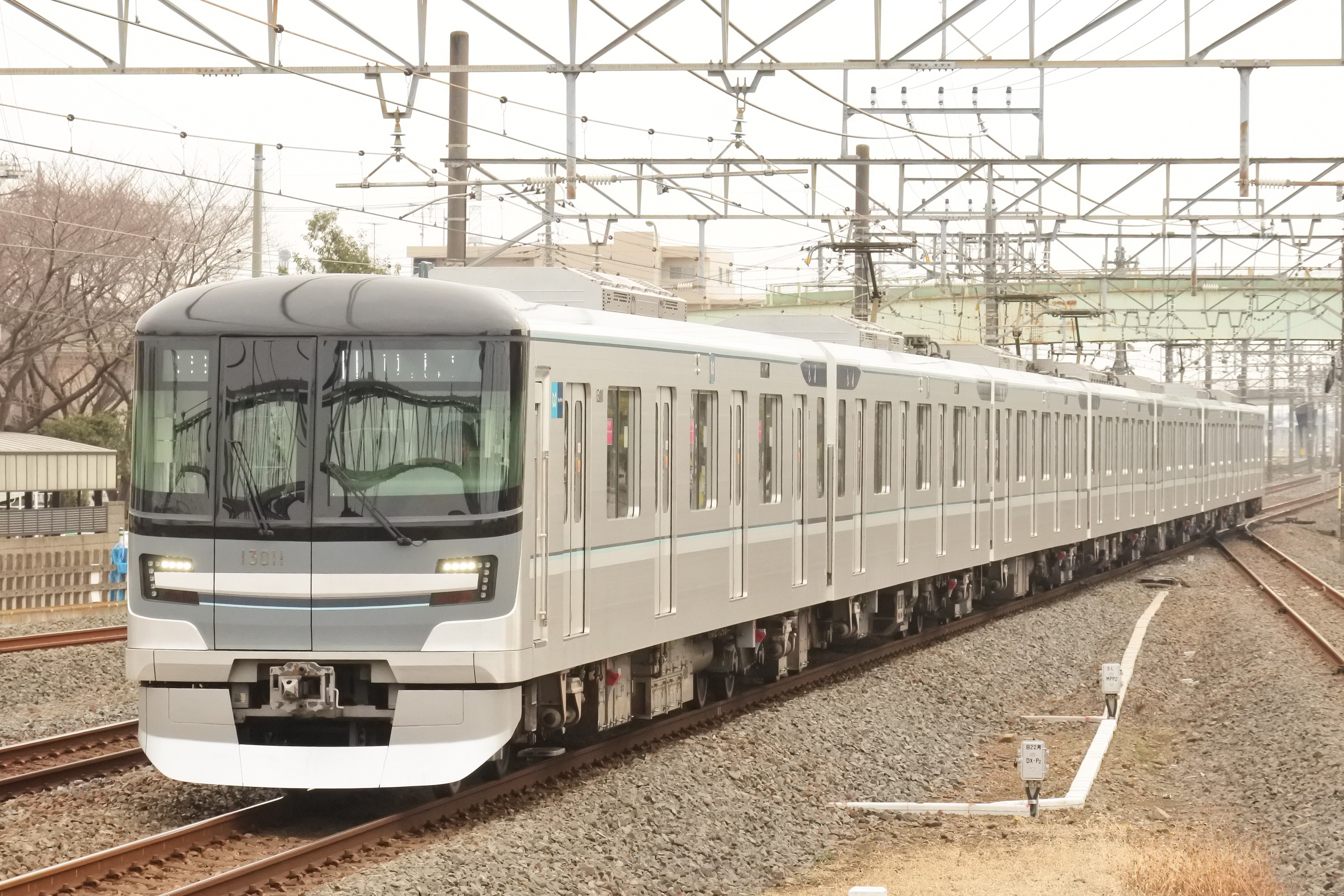 Tokyo Metro 13000 series electric multiple unit set 13111 approaching Sugito-takanodai Station on the Tobu Nikko Line in Saitama Prefecture, Japan